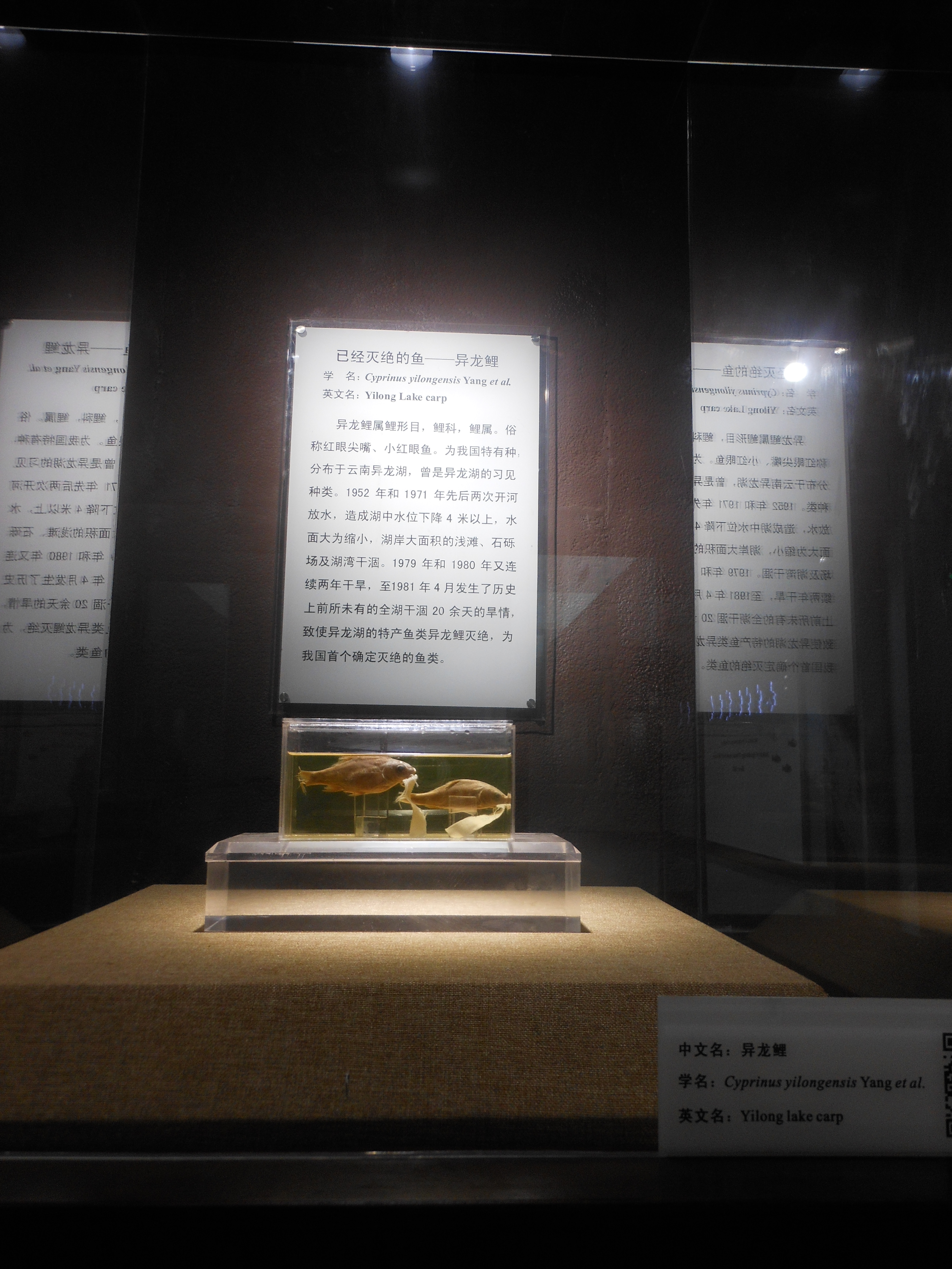 This is a specimen of Cyprinus yilongensis (Yilong Lake carp), which is exhibited in the Museum of Hydrobiological Sciences, Wuhan Institute of Hydrobiology of Chinese Academy of Science. Also, information (In Chinese) on the background broad reveals a detailed process of the carp's extinction.